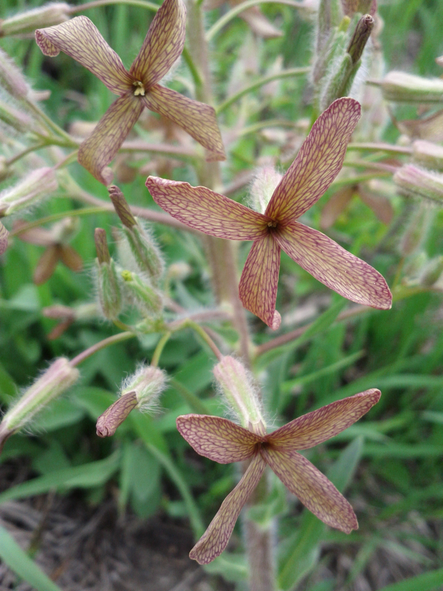 Inflorescence Taxonym: Hesperis tristis ss Fischer et al. EfÖLS 2008 ISBN 978-3-85474-187-9 Location: Gallows hill near Oberstinkenbrunn, district Hollabrunn, Lower Austria - ca. 340 m a.s.l. Habitat: semi-dry grassland